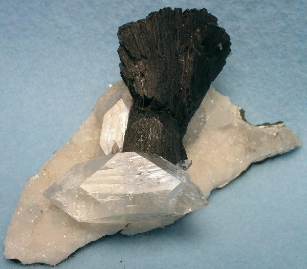 Heulandite, Apophyllite-(KF) Locality: Jalgaon District, Maharashtra, India (Locality at ) Size: 8 x 4.5 x 3 cm. Exceptional specimen of deep reddish-black Heulandite with two gorgeous Apophyllites. The Heulandite, so unusual and attractive in color and 4 cm in size, has a good, almost metallic luster, and a stepped bowtie habit. Both major Apophyllites, the largest of which is 3.5 cm, are gemmy and highly lustrous. Ex. Steve Smale Collection.